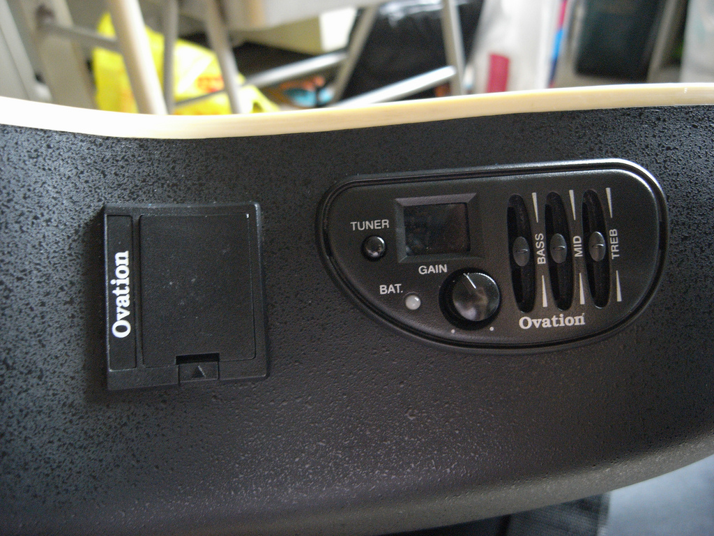 Ovation Celebrity CC44